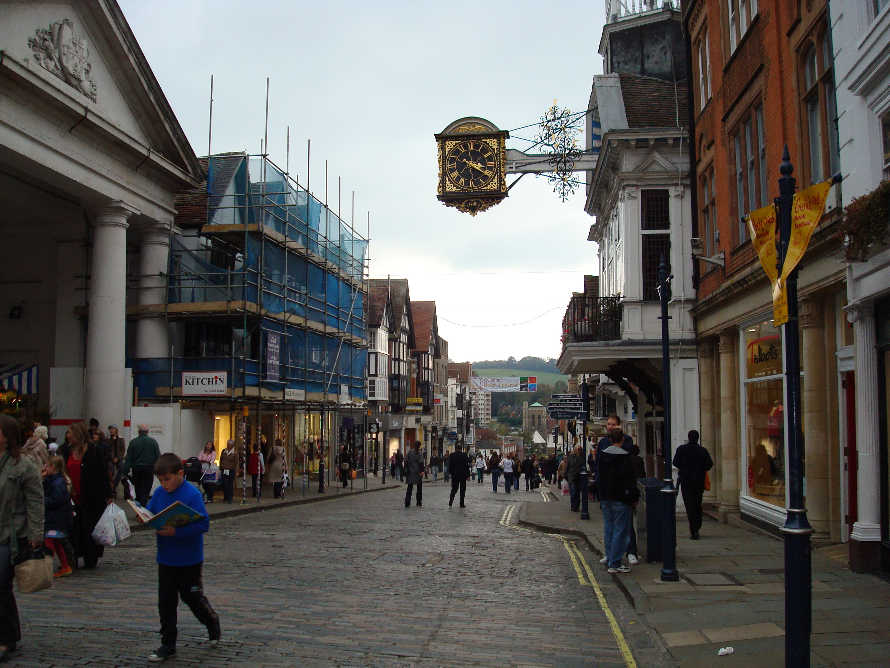 S Knights, Oct 2007, my pic